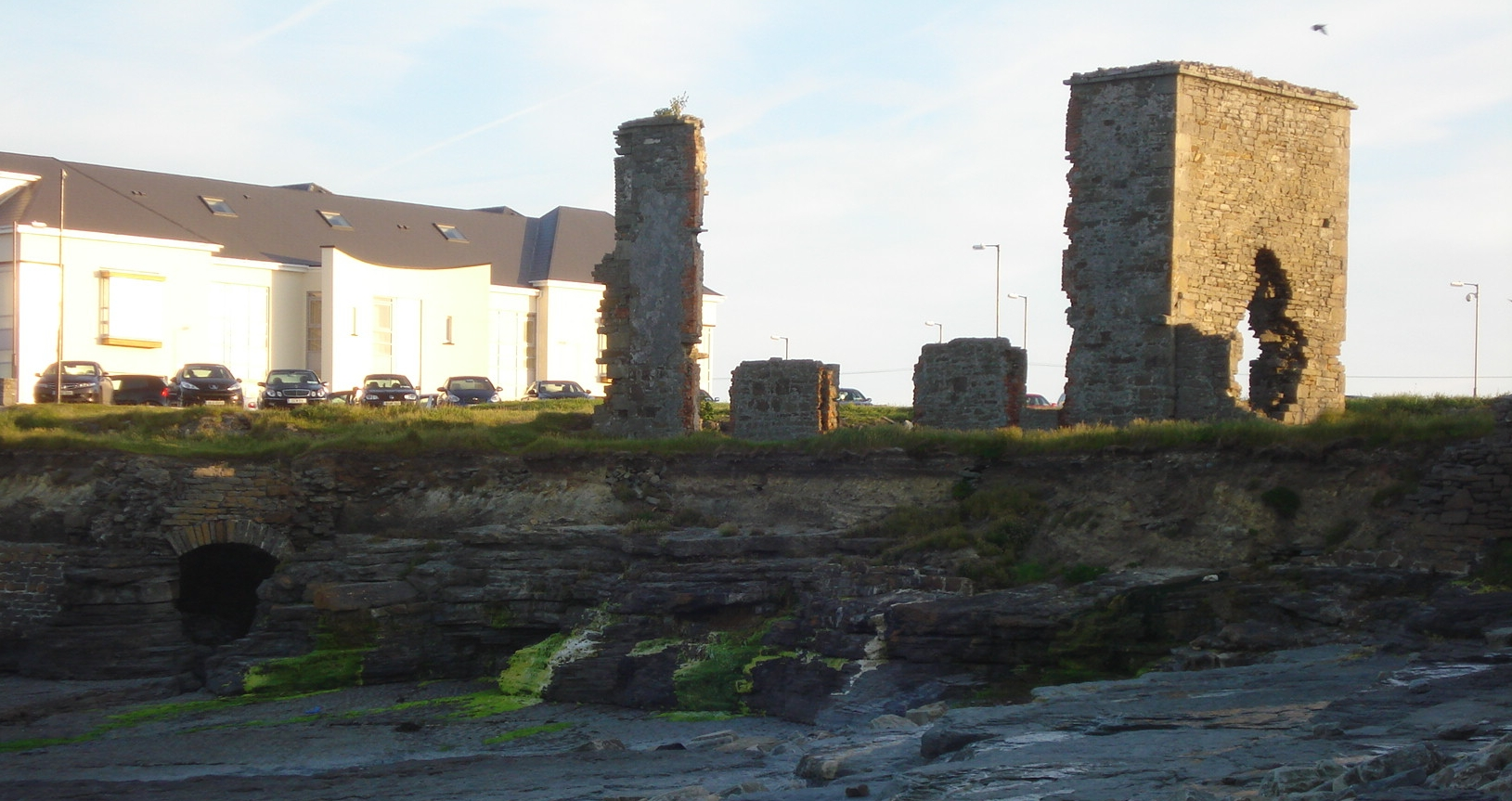 Ruin Atlantic Hotel in Spanish Point, Milltown Malbay, County Clare. In the background the present day Armada Hotel.